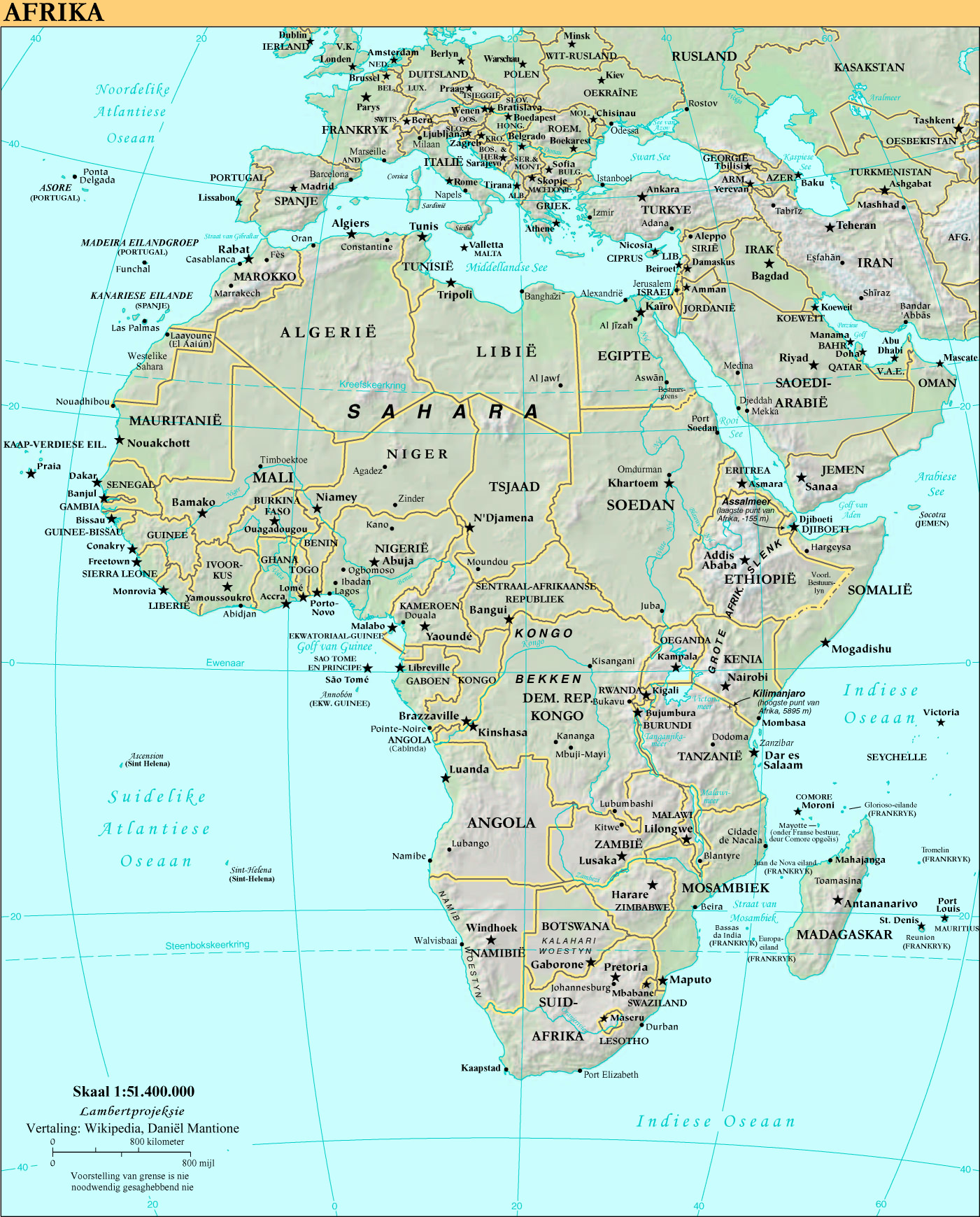 A map of Africa.